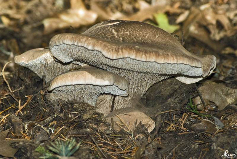 Sarcodon glaucopus Location: Quinta das Canadas, Torres, Trancoso, Portugal Observation Notes: Habitat is a mixed woodland (conifers & broadleaved trees). For more information about this, see the observation page at Mushroom Observer.